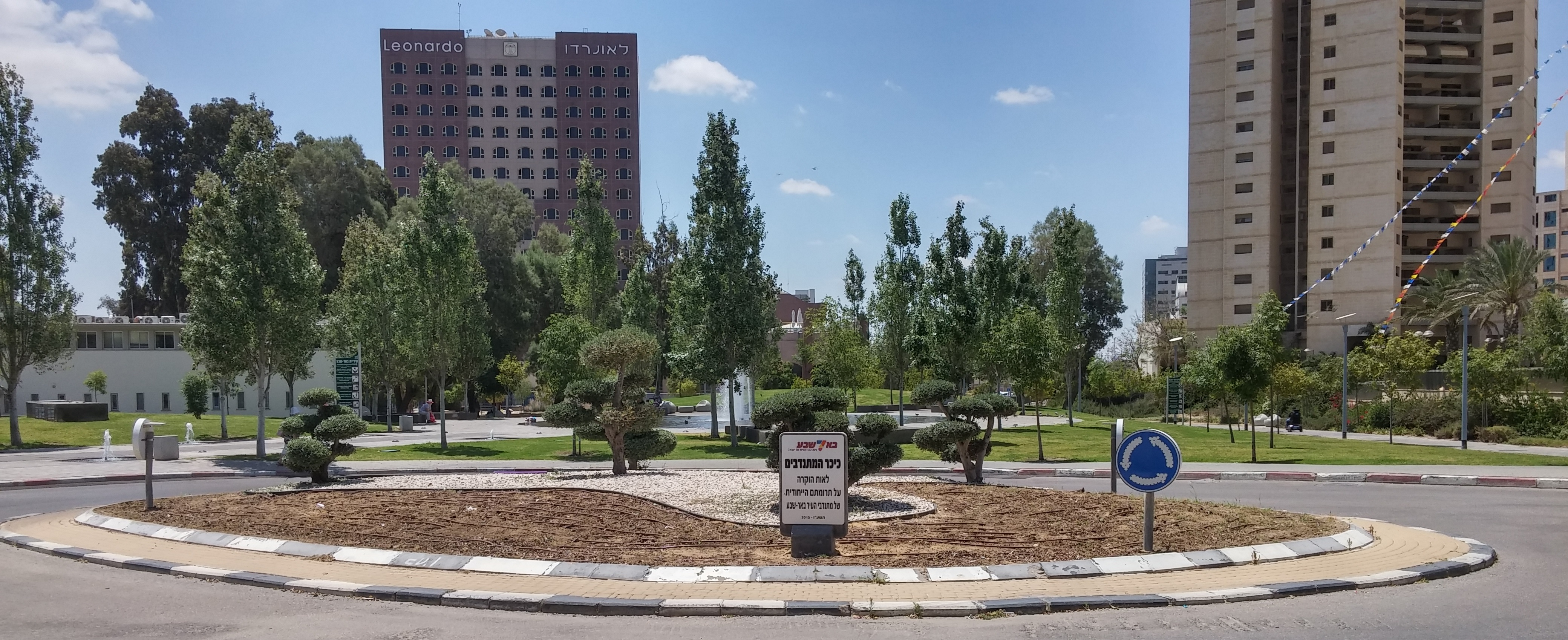 Volunteers square, Beersheba. On the back: Leonardo Hotel